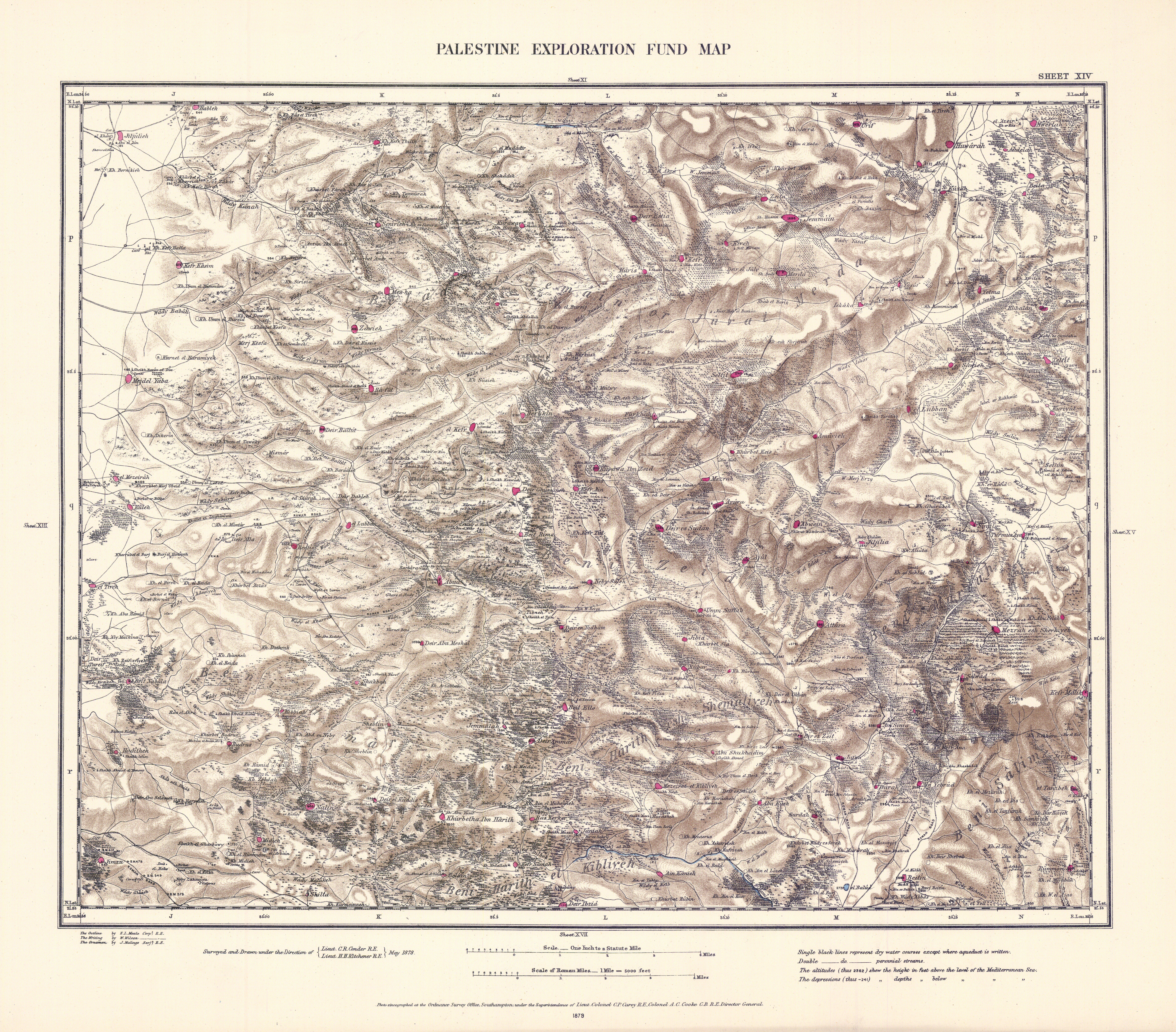 Map of Western Palestine in 26 sheets from the surveys conducted for the Committee of the Palestine Exploration Fund by Lietenanats C.R. Conder and H.H. Kitchener R.E. during the years 1872-1877. Photozincographed and Printed for the Committee ...at the Ordnance Survey Office Southampton. OCLC 234168442. Note I: Marked as copyrighted by Jewish National & University Library, which is not grounded. Note II: This is a collection 72dpi images. For the map in higher resolution, check either David Rumsey Map Collection, Israel Antiquities Authority, The Digital Archaeological Atlas of the Holy Land, Amud Anan (Hebrew), or a CD from BiblePlaces.